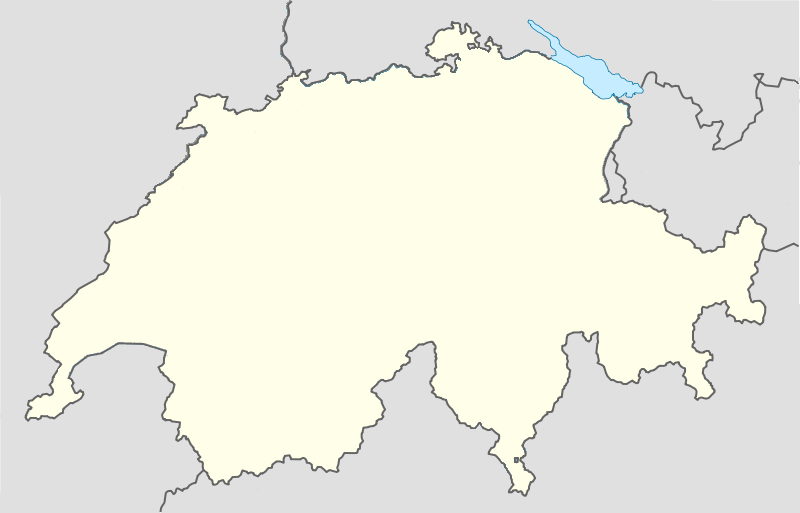 Location map of Switzerland without lakes and rivers